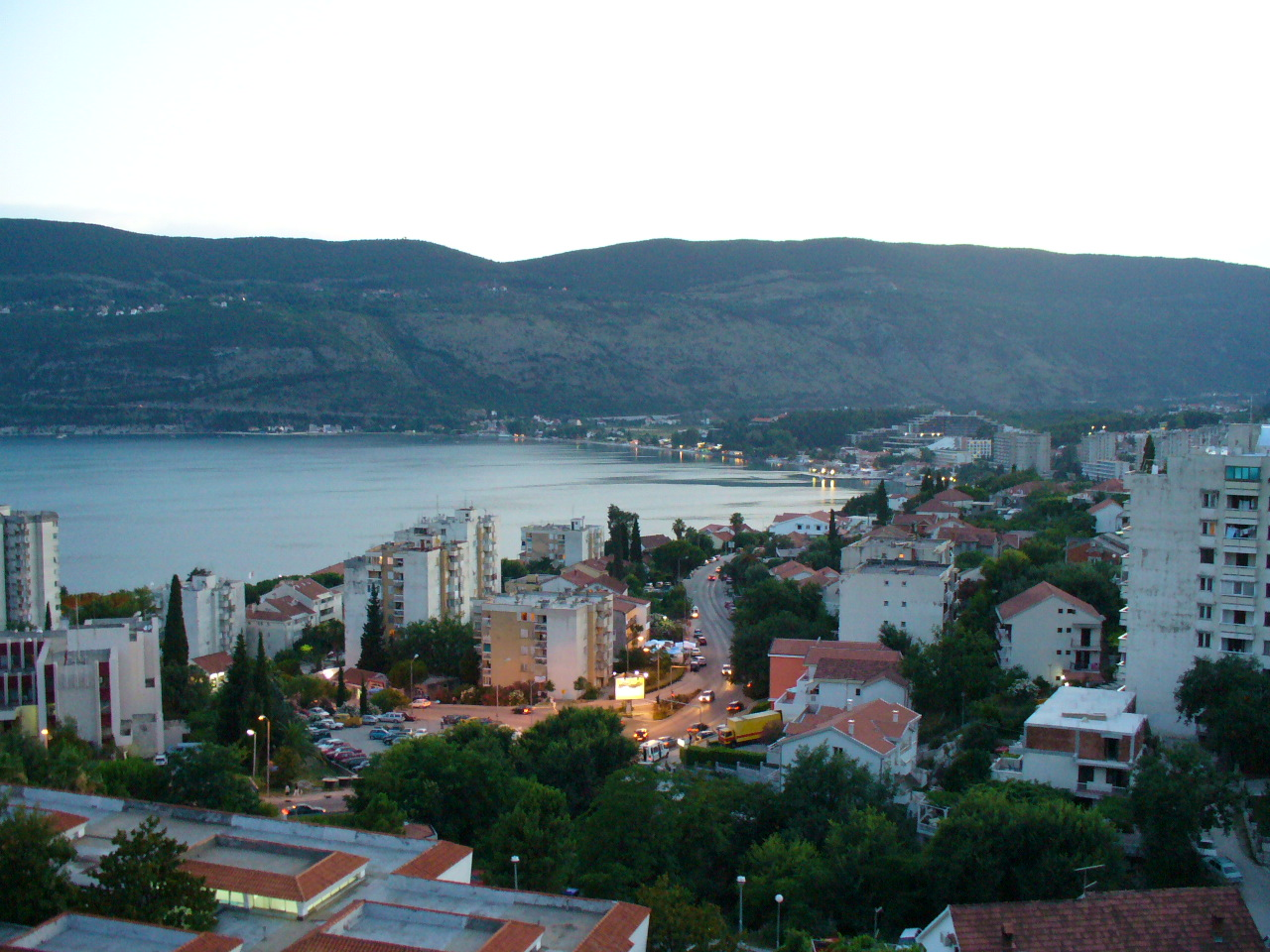 Sunset in Herceg Novi, 2007 Summer, Released to Wikipedia, GFDL.